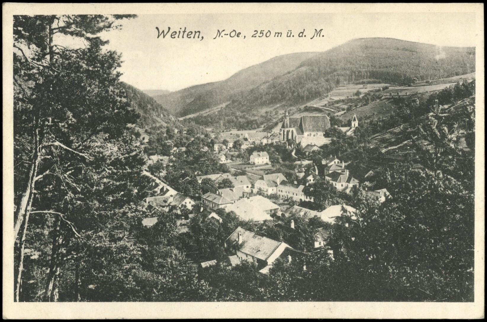 This is a foto, which shows an old view of the village "Weiten" in Lower Austria.